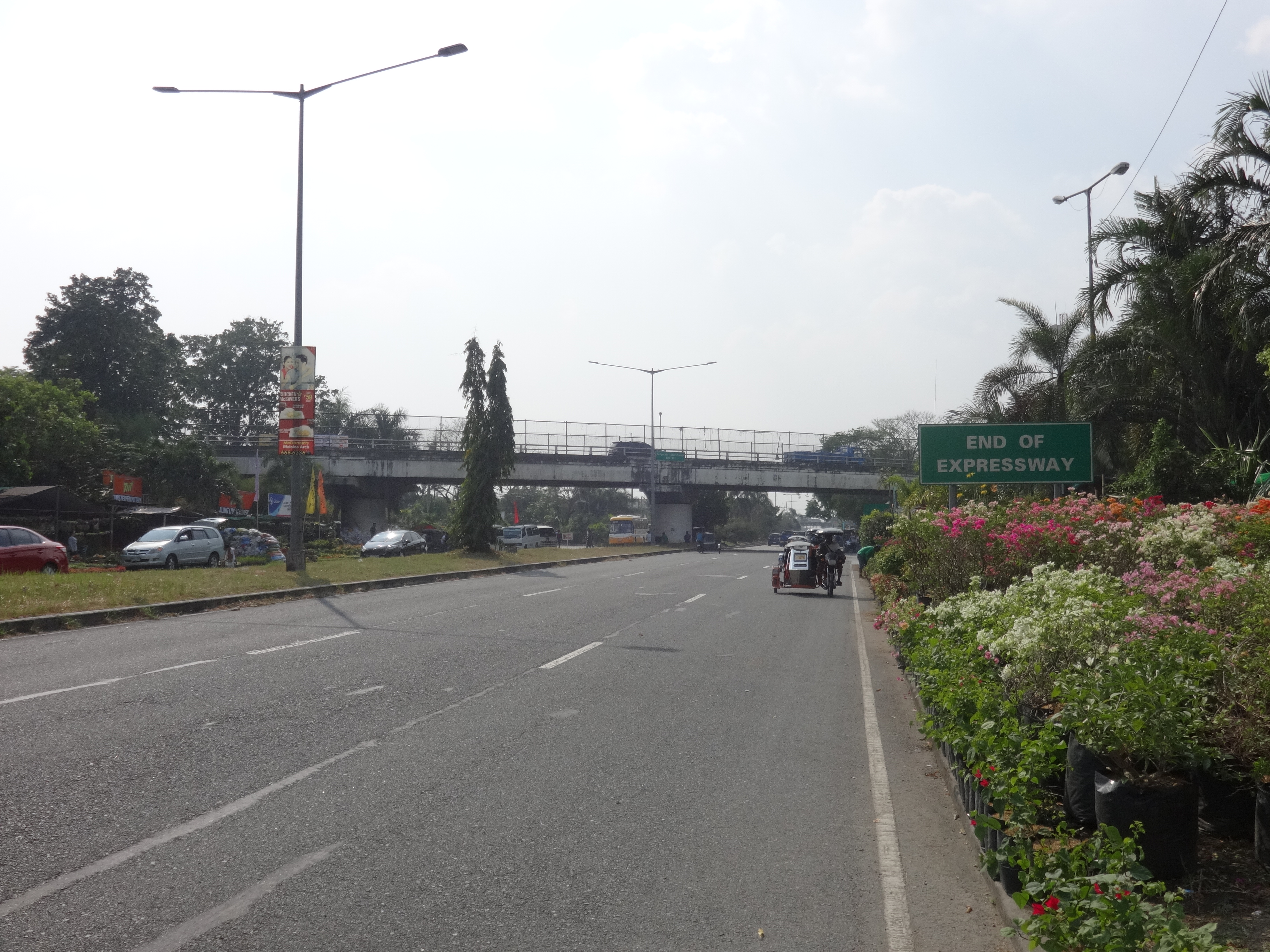 An "End of Expressway" sign along Tabang Spur Road, Guiguinto, Bulacan. The sign designates the original north end of NLEX in the 1960s.